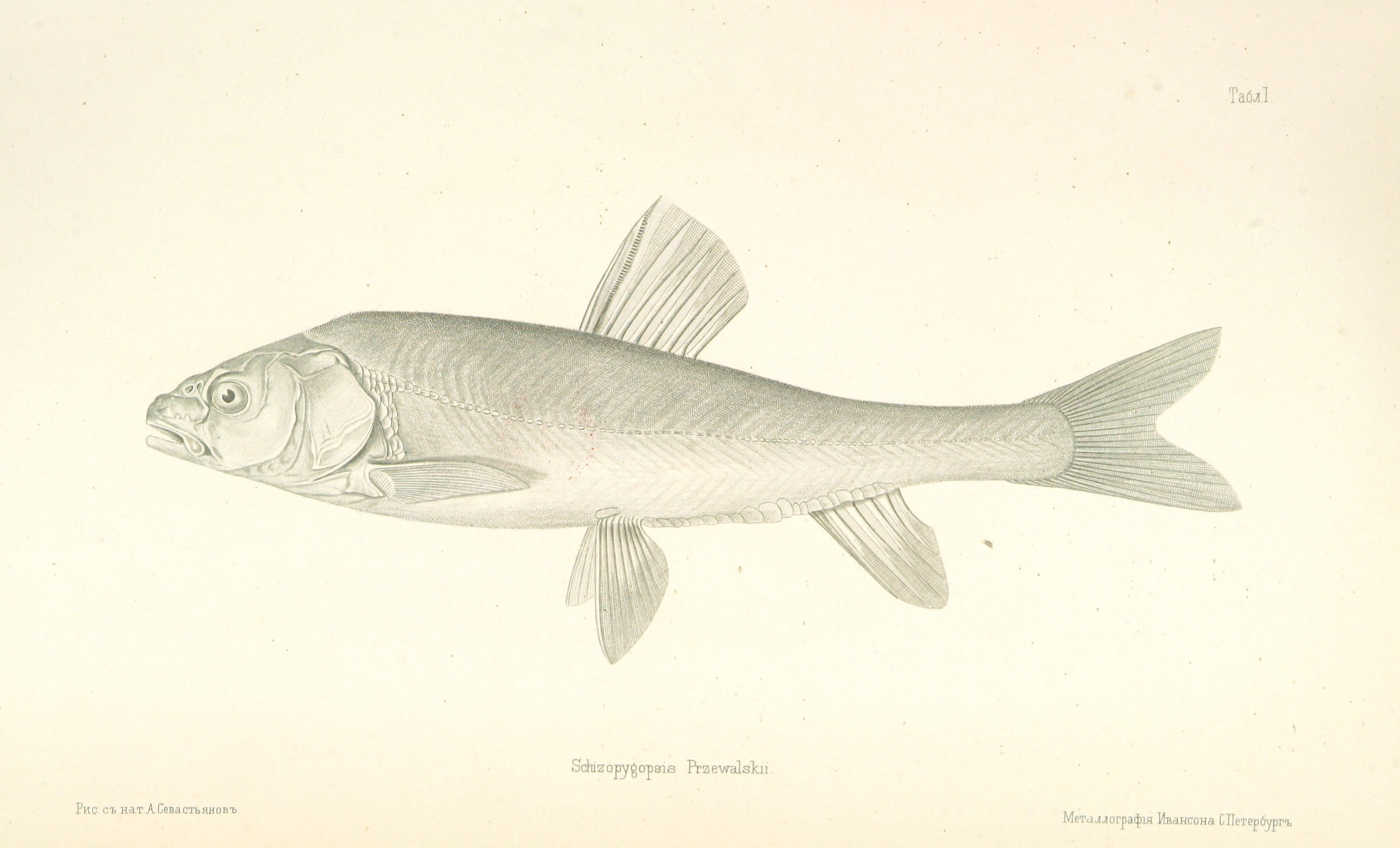 An 1875 illustration of the Qinghai Lake naked carp, Gymnocypris przewalskii, formerly called Schizopygopsis przewalskii.